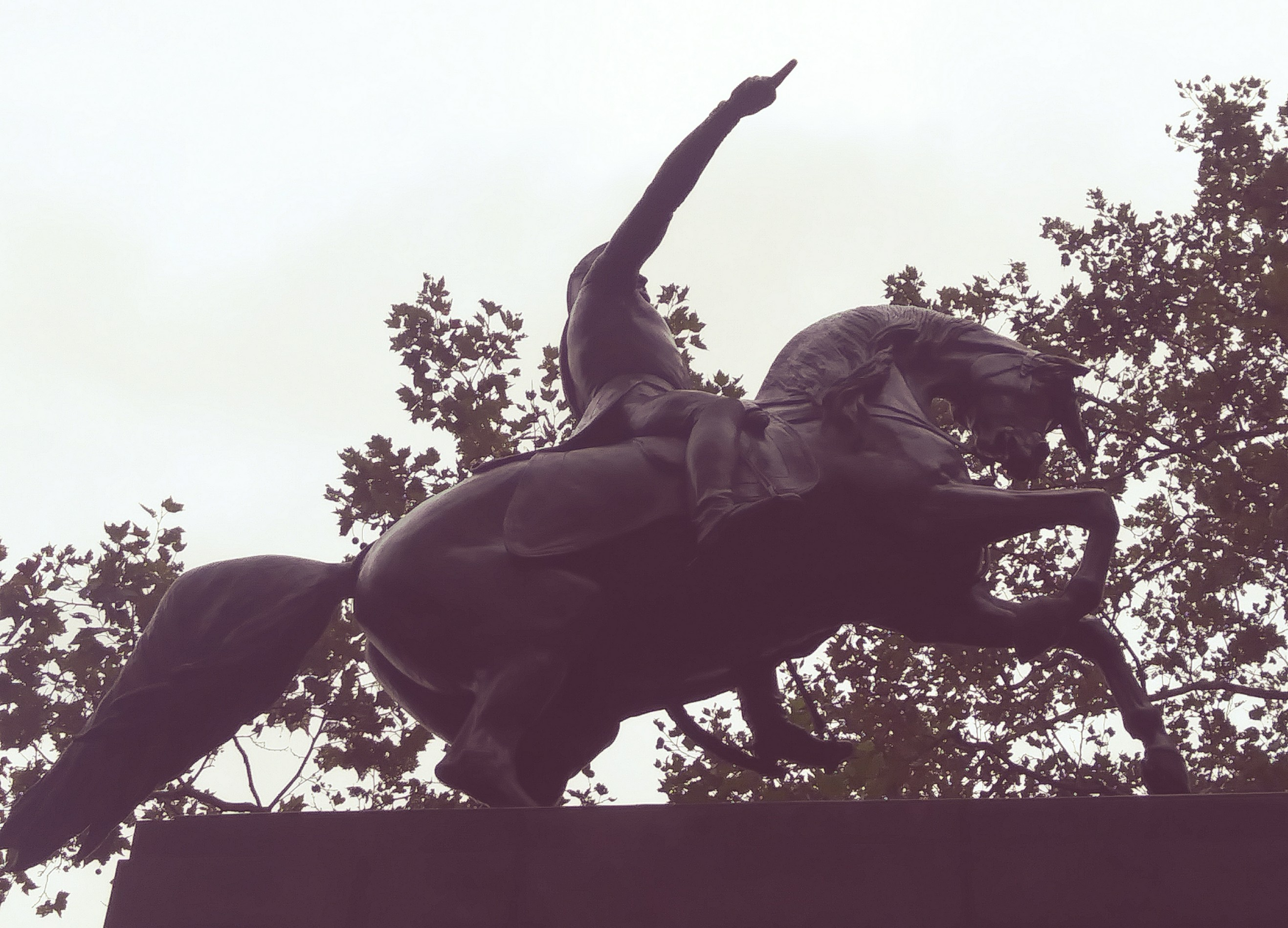 Statue of José de San Martín on Center Drive & Central Park South in Central Park